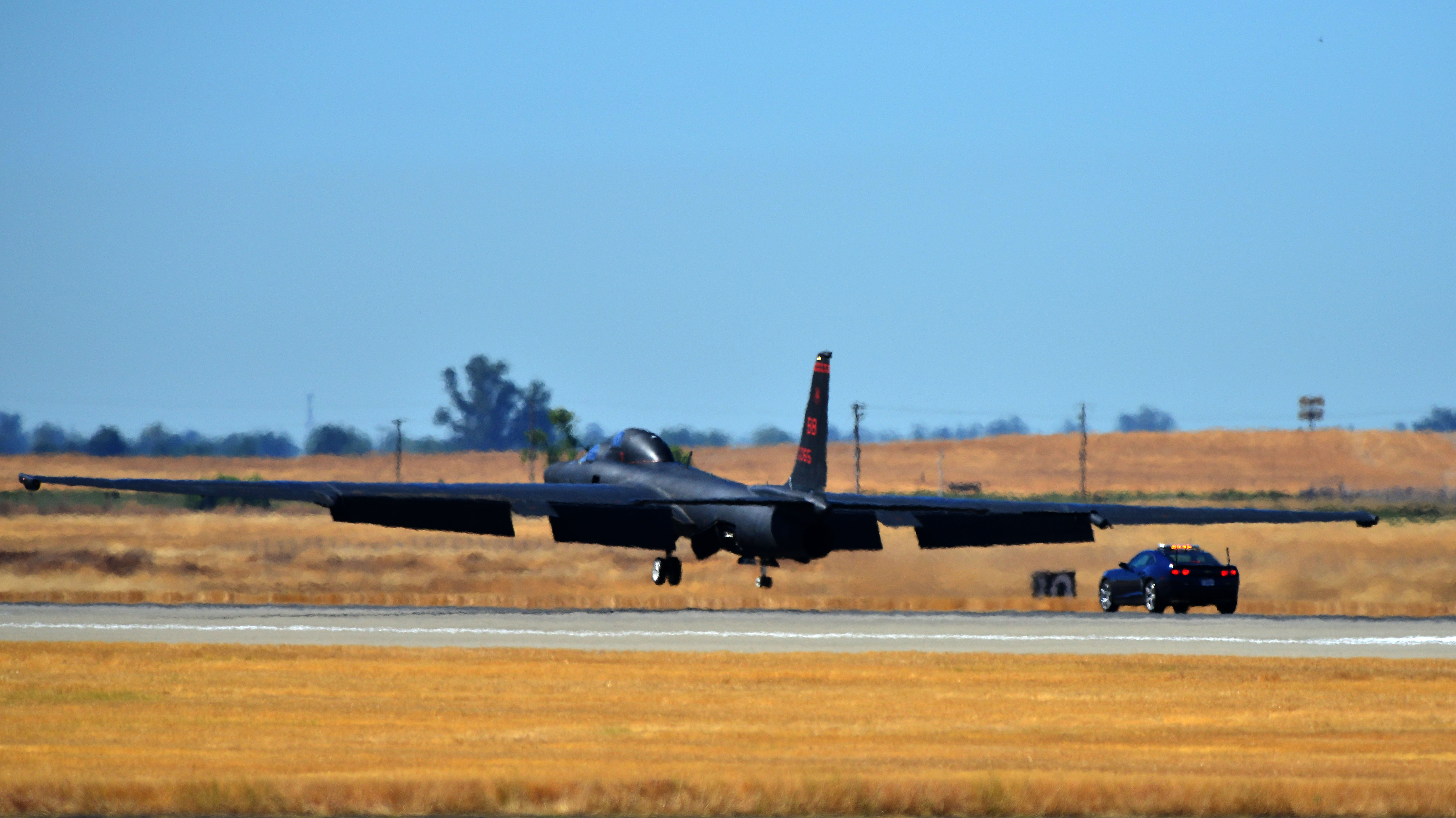 A U.S. Air Force TU-2S Dragon Lady high-altitude reconnaissance aircraft lands while a Chevy Camaro SS chases behind as the mobile chase car at Beale Air Force Base, Calif., after flying a routine sortie over the local area. Sorties consist of flying patterns and running through touch and go exercises. (U.S. Air Force Photo by Senior Airman Drew Buchanan)